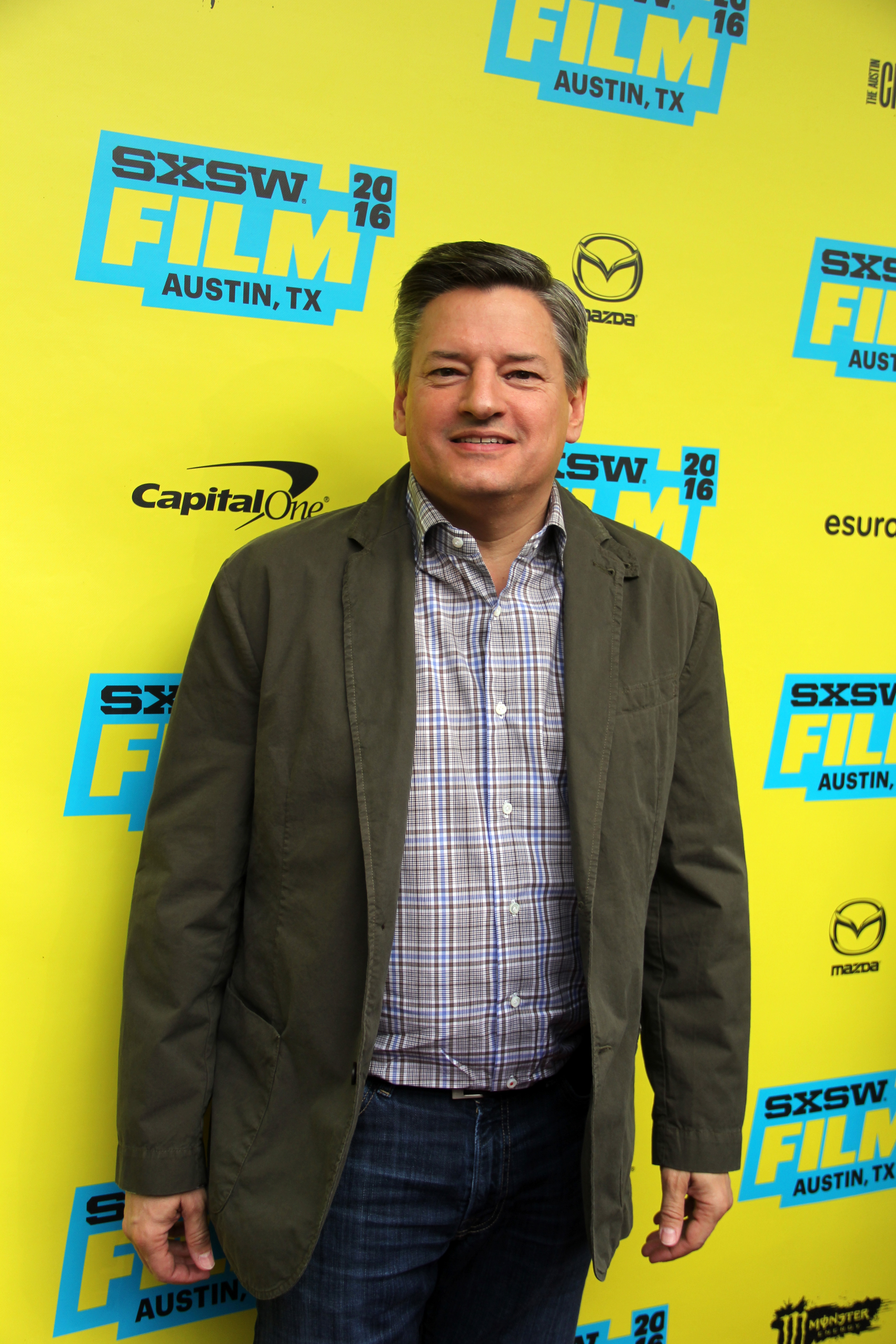 Ted Sarandos at the premiere of Pee-Wee's Big Holiday. Taken at SXSW 2016.